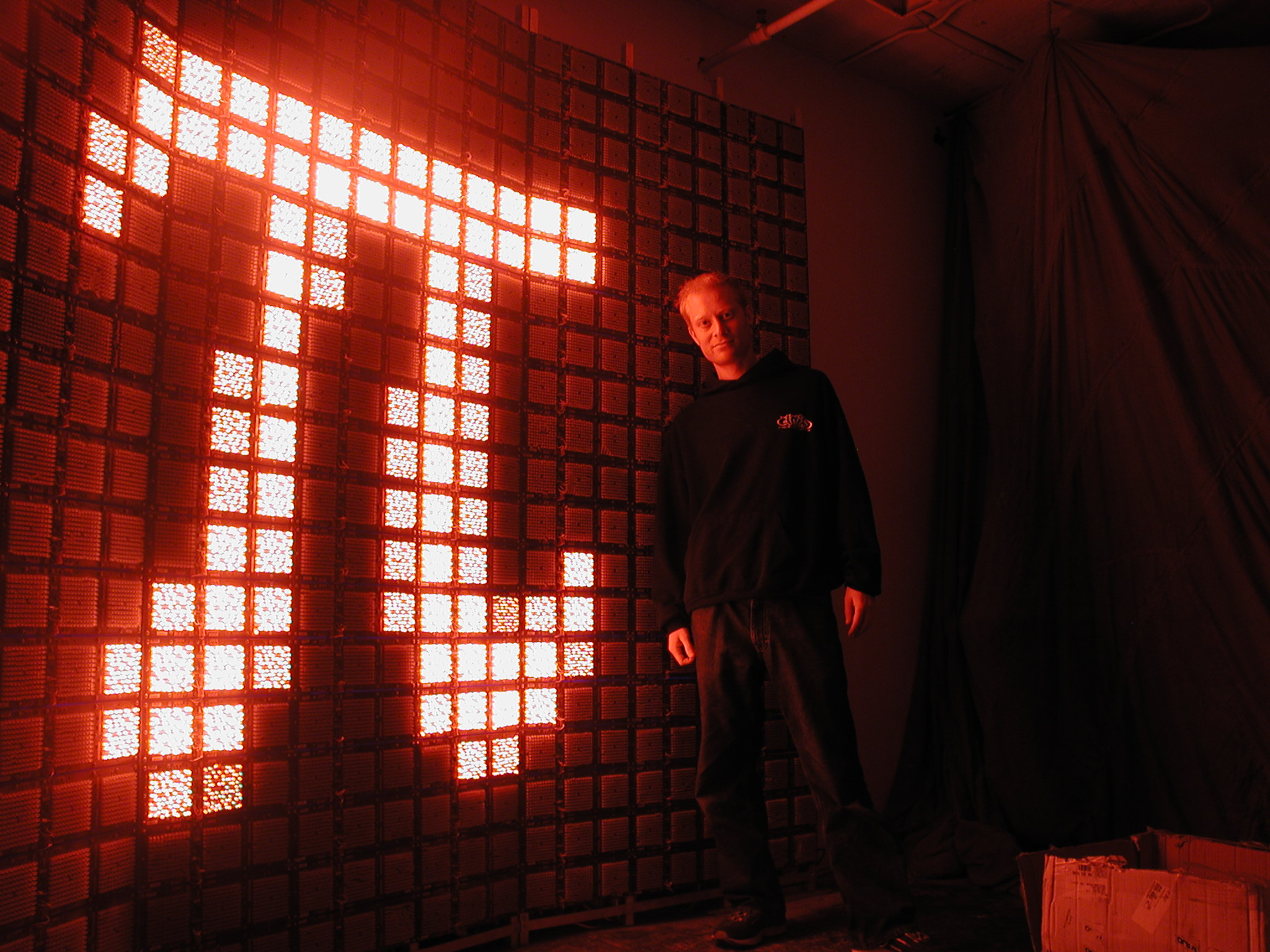 Photo of the "Tensor" (an 8 ft x 10 ft tri-section wall of 64,800 LEDs created by Kevin "Frostbyte" McCormick) at Phlogiston Research in Boston, MA 2004. Terry Sinay stands nearby.